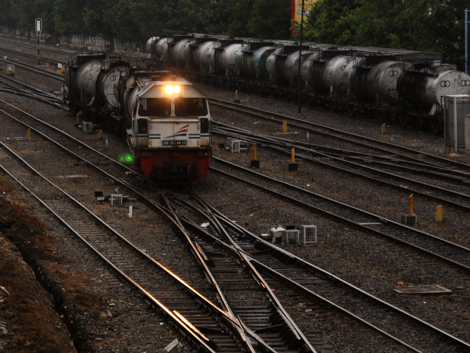 Diesel hydraulic loco no BB 303 84 12 with oil container at Medan Station, North Sumatra, Indonesia